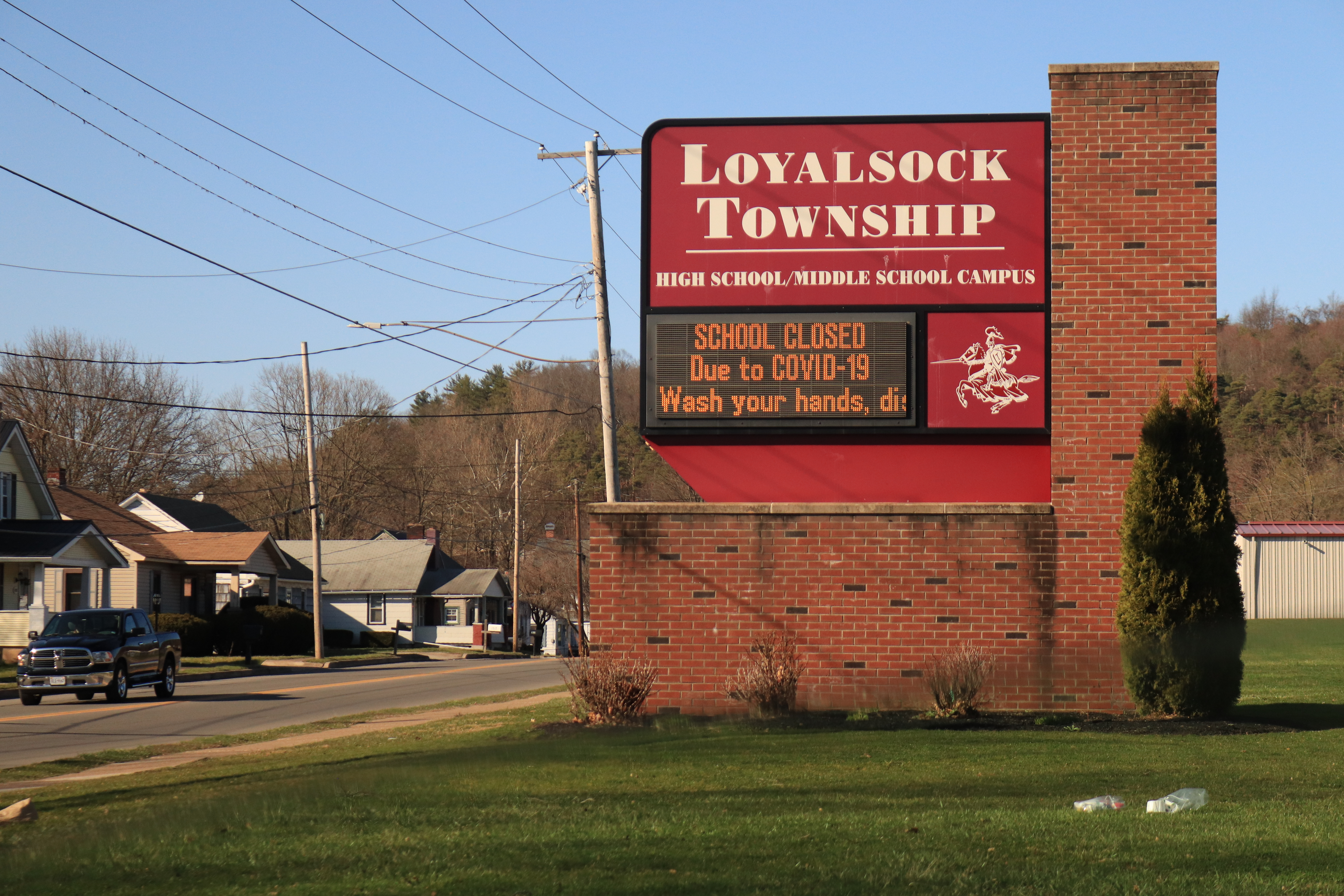 An electronic sign at the entrance to the Loyalsock Township High School and Middle School in Williamsport, PA, USA announces school closures due to COVID-19. The sign includes a scrolling banner at the bottom which begins with the text, "Wash your hands,...". In response to the COVID-19 pandemic, schools in Pennsylvania have closed, affecting over one million students throughout the state.